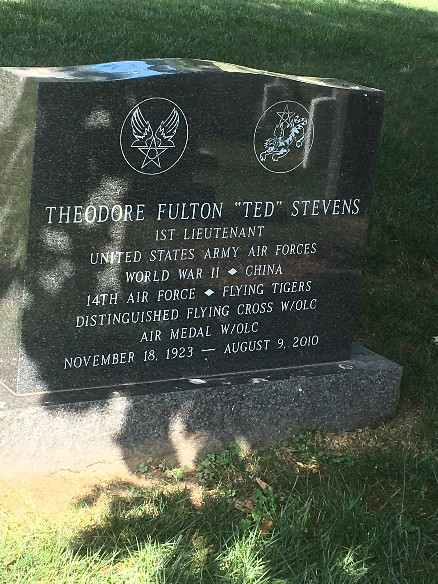 I think about my friend and mentor Ted Stevens often and took time to reflect on his life and contribution after a recent visit to his gravesite at the National Arlington Cemetery.